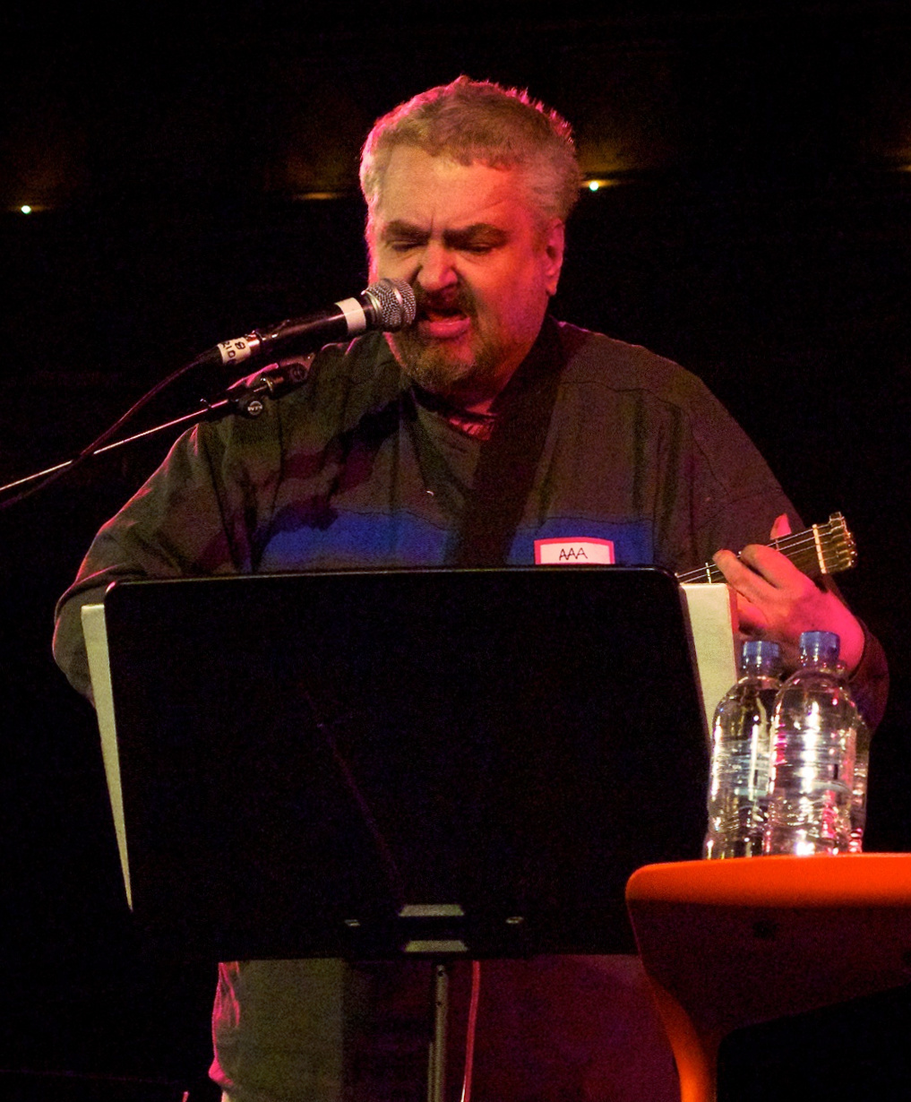 Daniel Johnston and British Sea Power